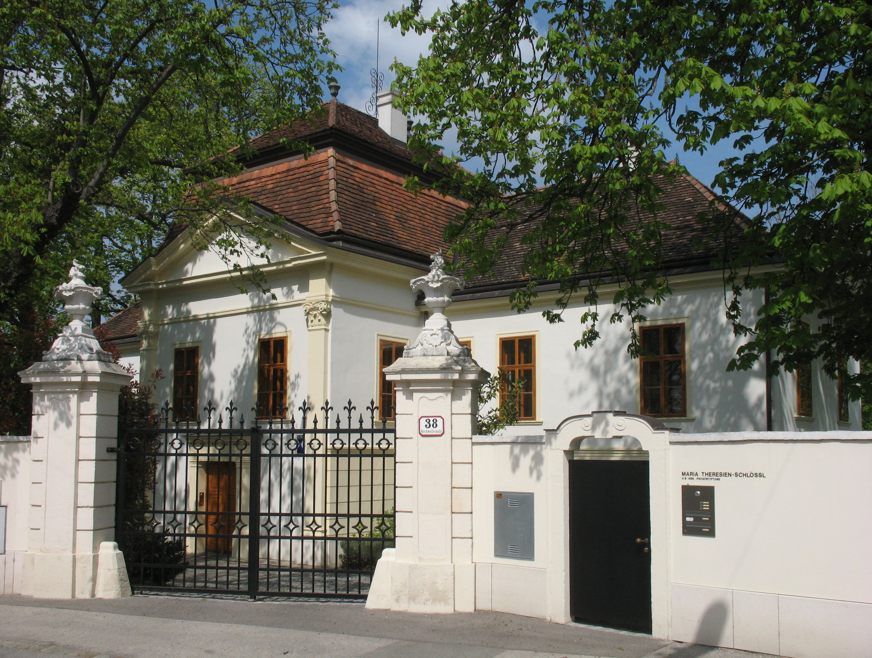 Manor in Vienna-Liesing, Austria